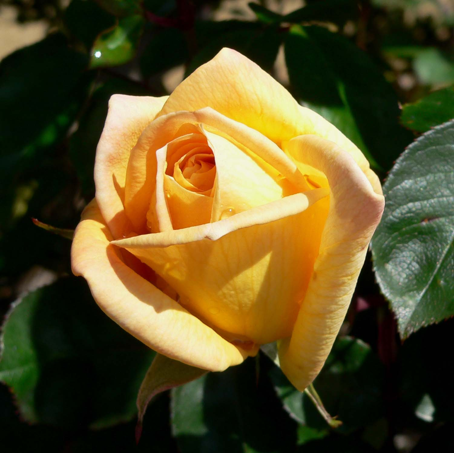 Photo of Rosa 'Oregold' at the San Jose Heritage Rose Garden